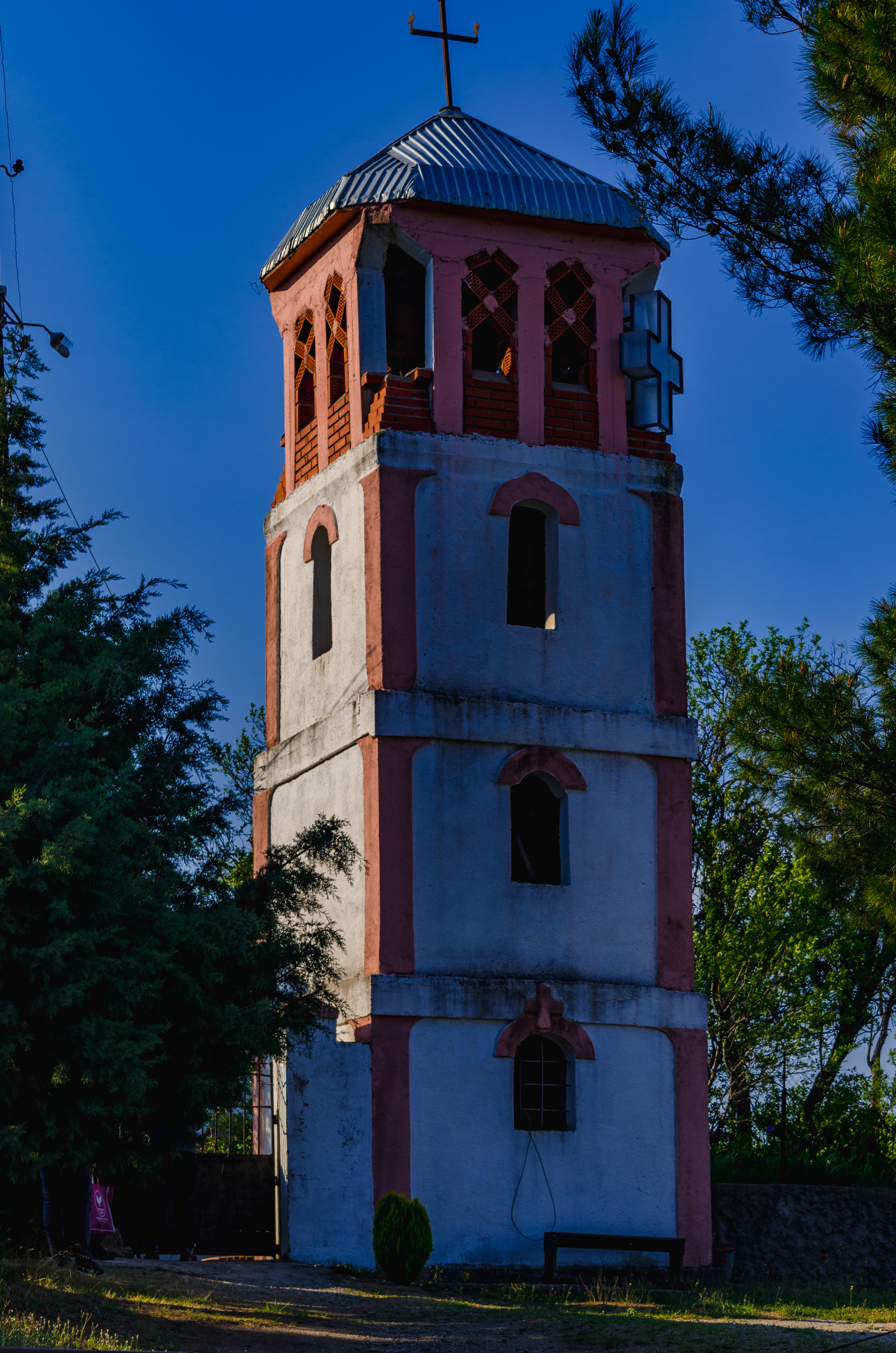 The bell tower of the St. Demetrius Church in the village of Smokvica, Macedonia